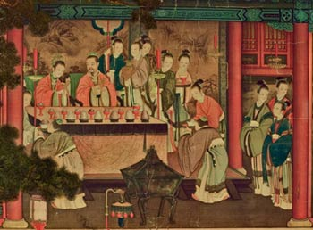 Xiwangmu's visit to the Han emperor Wu.